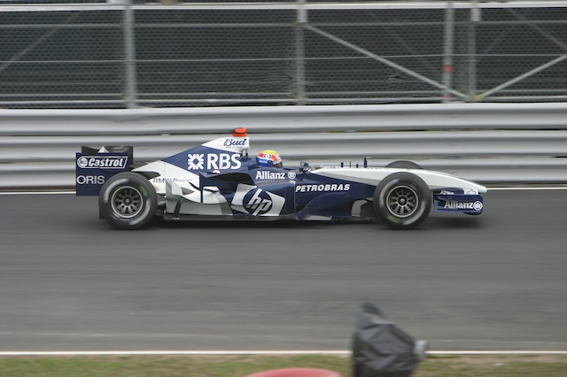 Mark Webber driving for Williams at the 2005 Canadian Grand Prix.